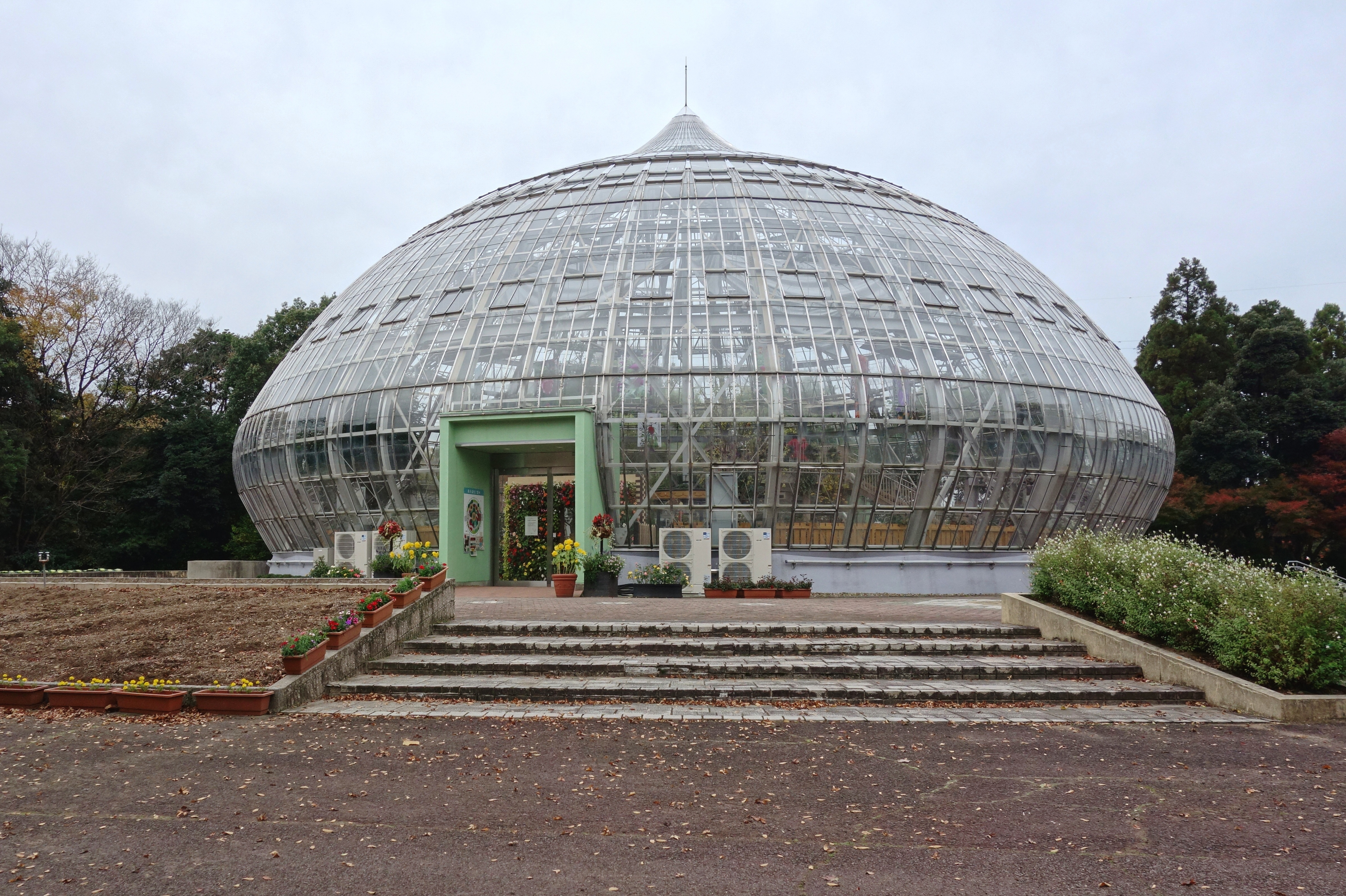 Greenhouse, Fukui-ken Sogo Green Center (Sakai-shi, Fukui Pref., Japan)